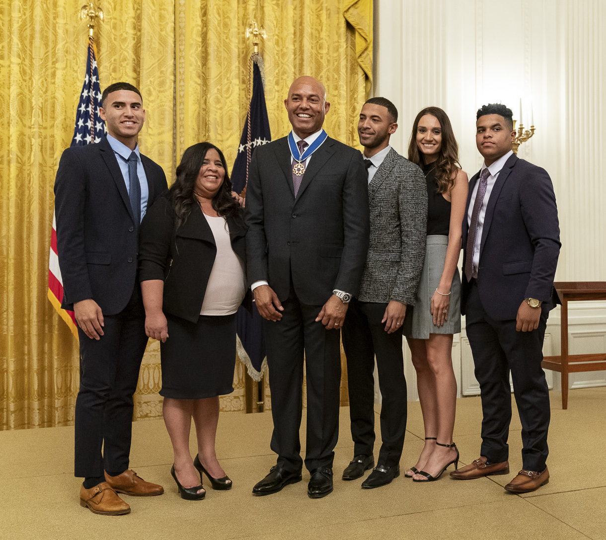 President Donald J. Trump congratulates Mariano Rivera and his family Monday, Sept. 16, 2019, in the East Room of the White House after presenting Rivera with the Presidential Medal of Freedom. (Official White House Photo by Shealah Craighead)